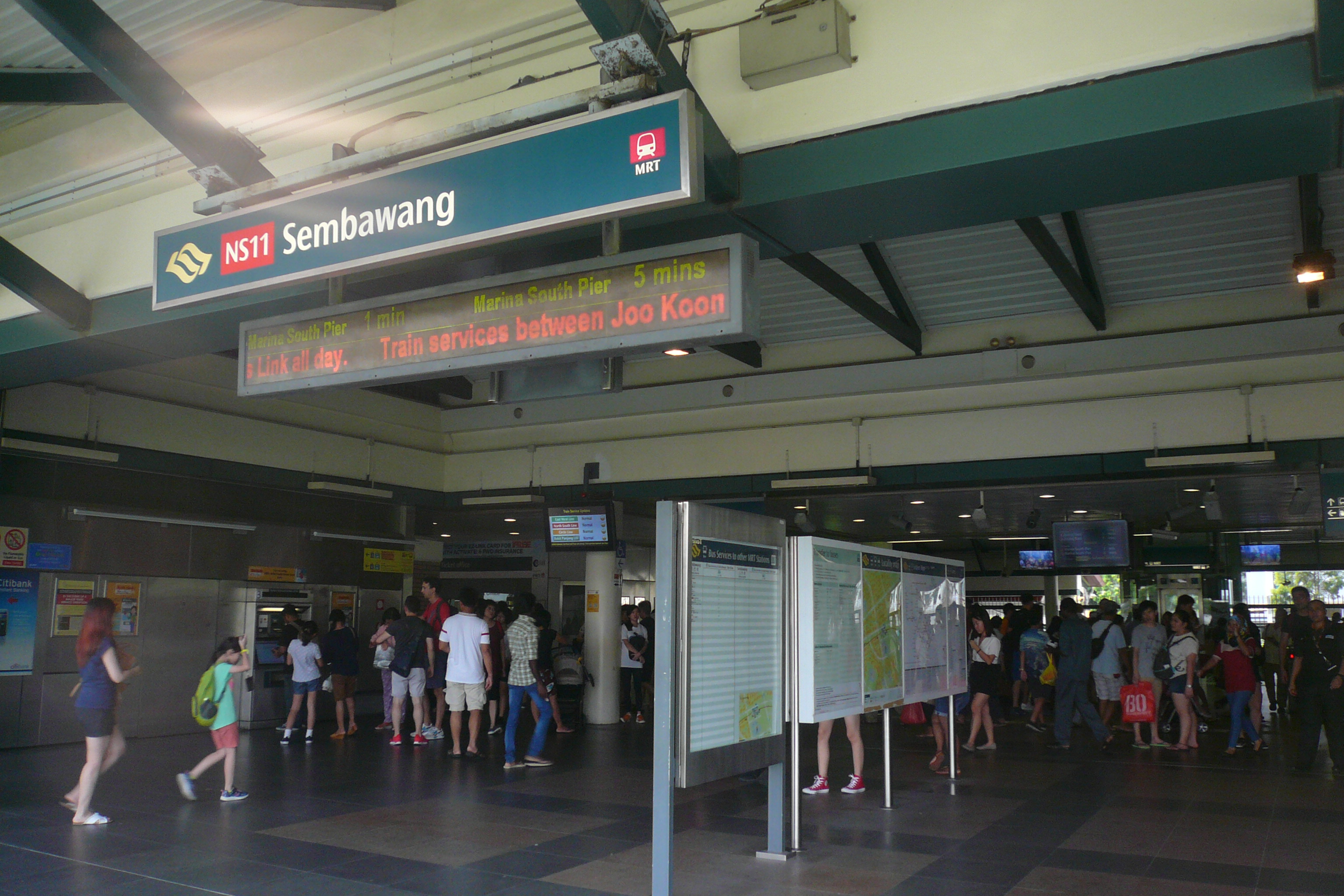 Sembawang station Exit A